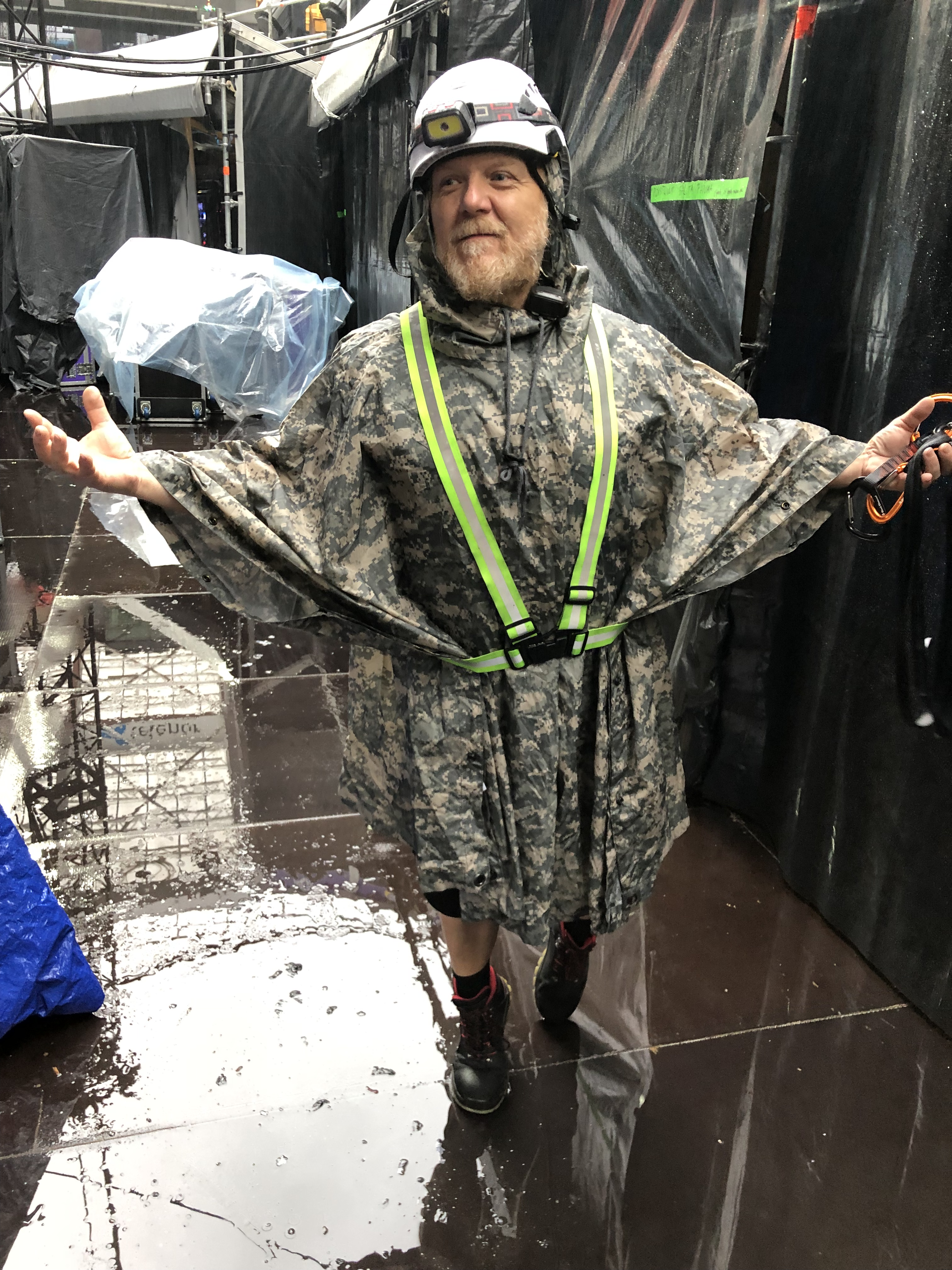 Robert Ligiewicz, A Special Place, Oslo, Norway